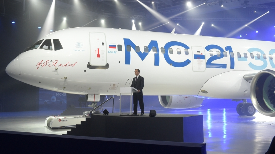 Dmitry Medvedev visited the Irkut Corporation’s aviation plant in Irkutsk and spoke at the presentation of the MC-21 airliner.